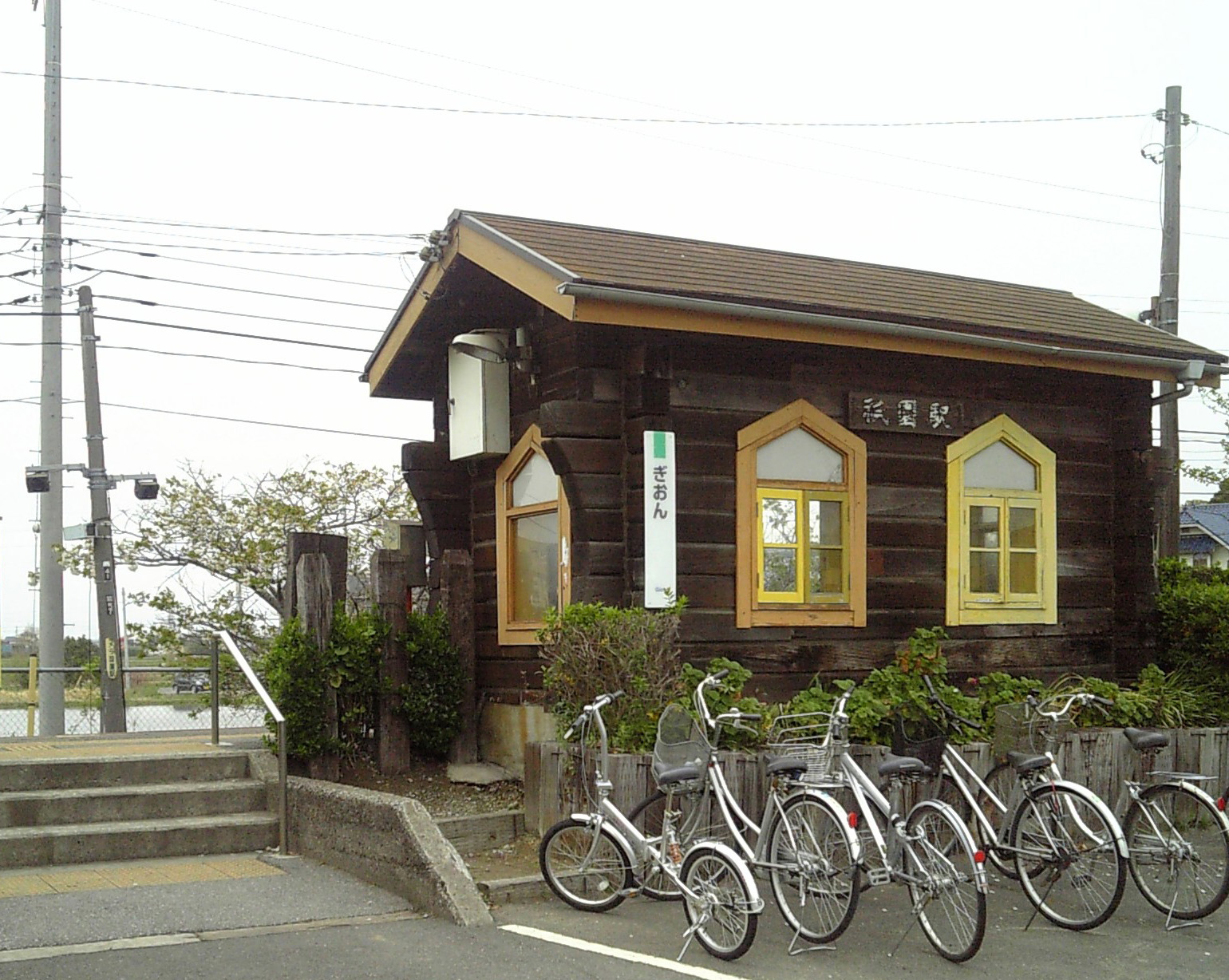 JR East Gion station.